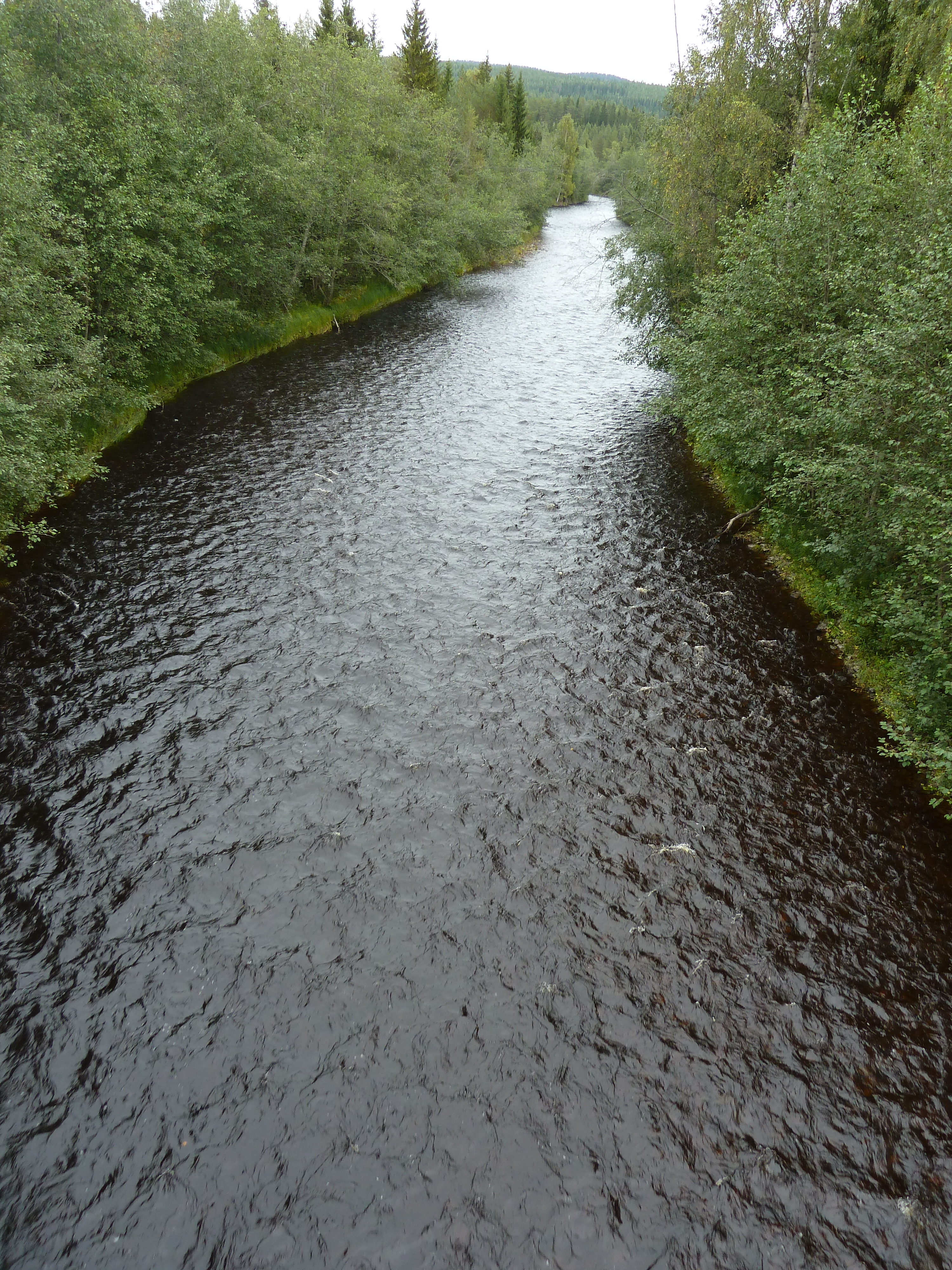 Moälven near Gottne, Örnsköldsvik, Sweden.